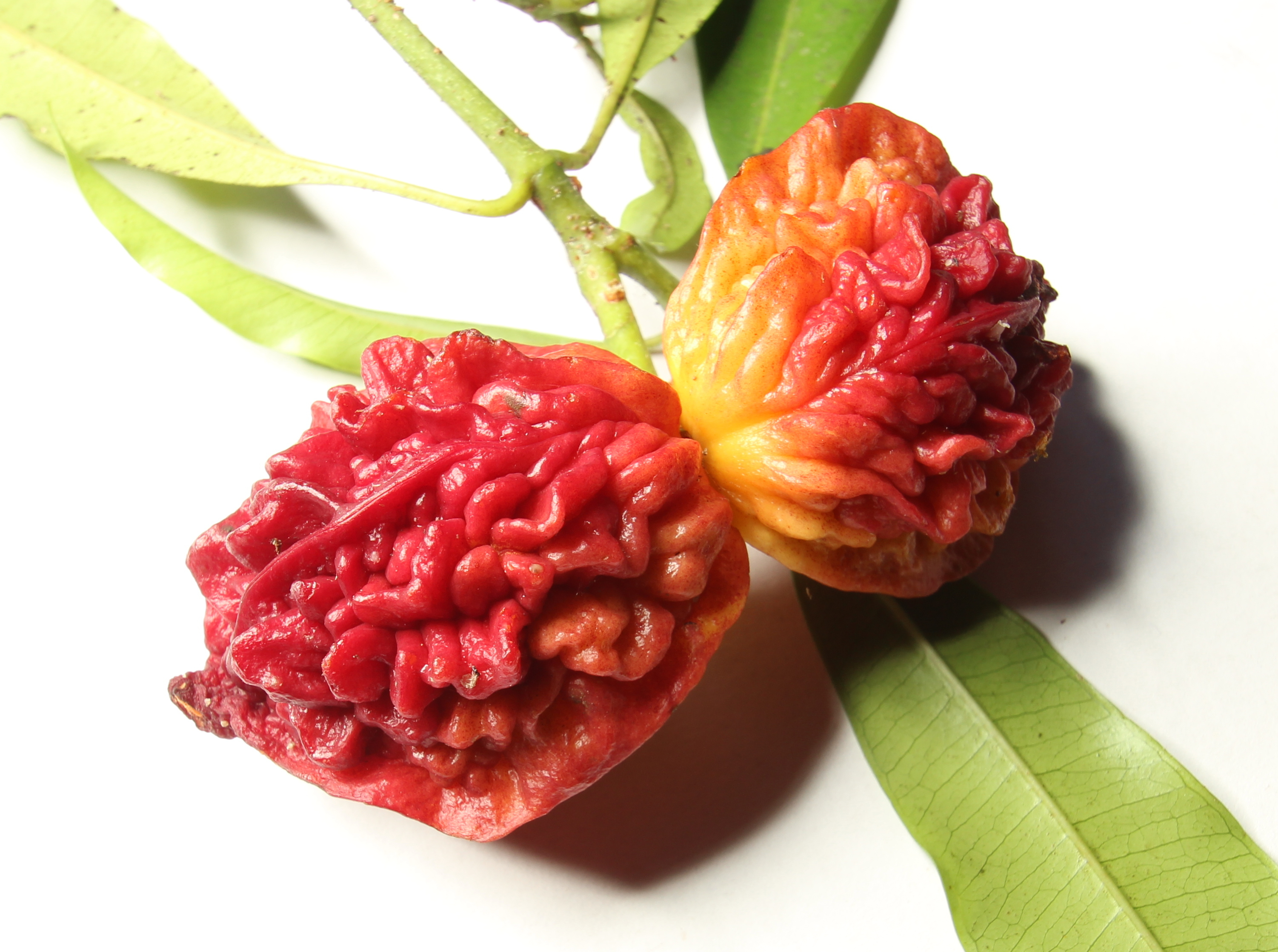 Ochrosia inventorum L. Allorge in the Jardin des Plantes in Paris, France. Object location48° 50′ 35.59″ N, 2° 21′ 27.83″ E